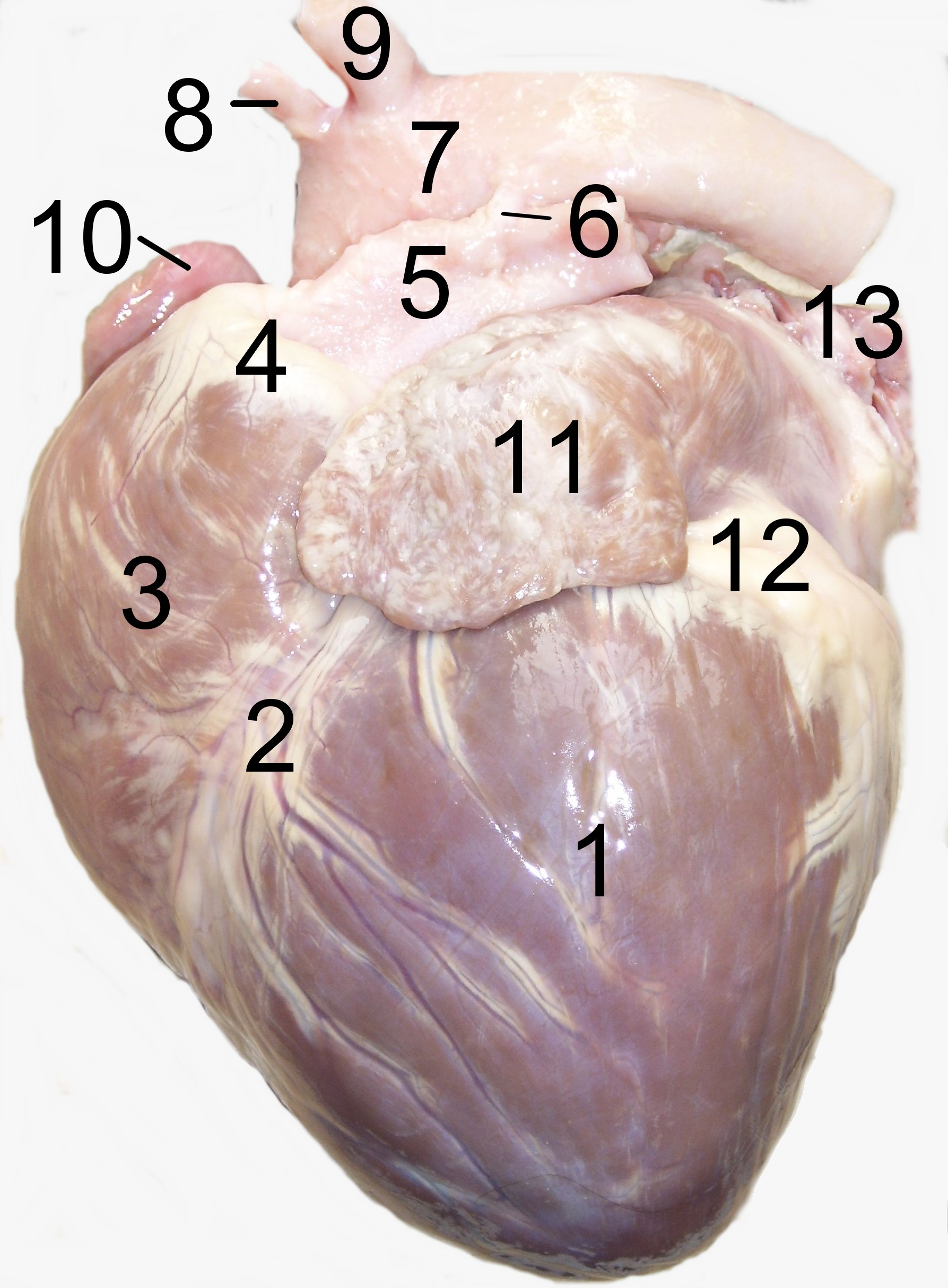 Dog heart from left. 1 left ventricle, 2 paraconal interventricular groove, 3 right ventricle, 4 arterial cone, 5 pulmonal trunc, 6 arterial ligament, 7 aortic arch, 8 brachiocephalic trunc, 9 left subclavian artery, 10 right auricle, 11 left auricle, 12 coronal groove, 13 pulmonal veins.